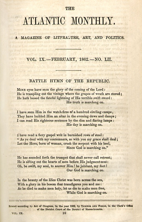 Original appearance of The Battle Hymn of the Republic, 1862 in The Atlantic Monthly